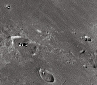 Baily lunar crater as seen from Earth with satellite craters labeled